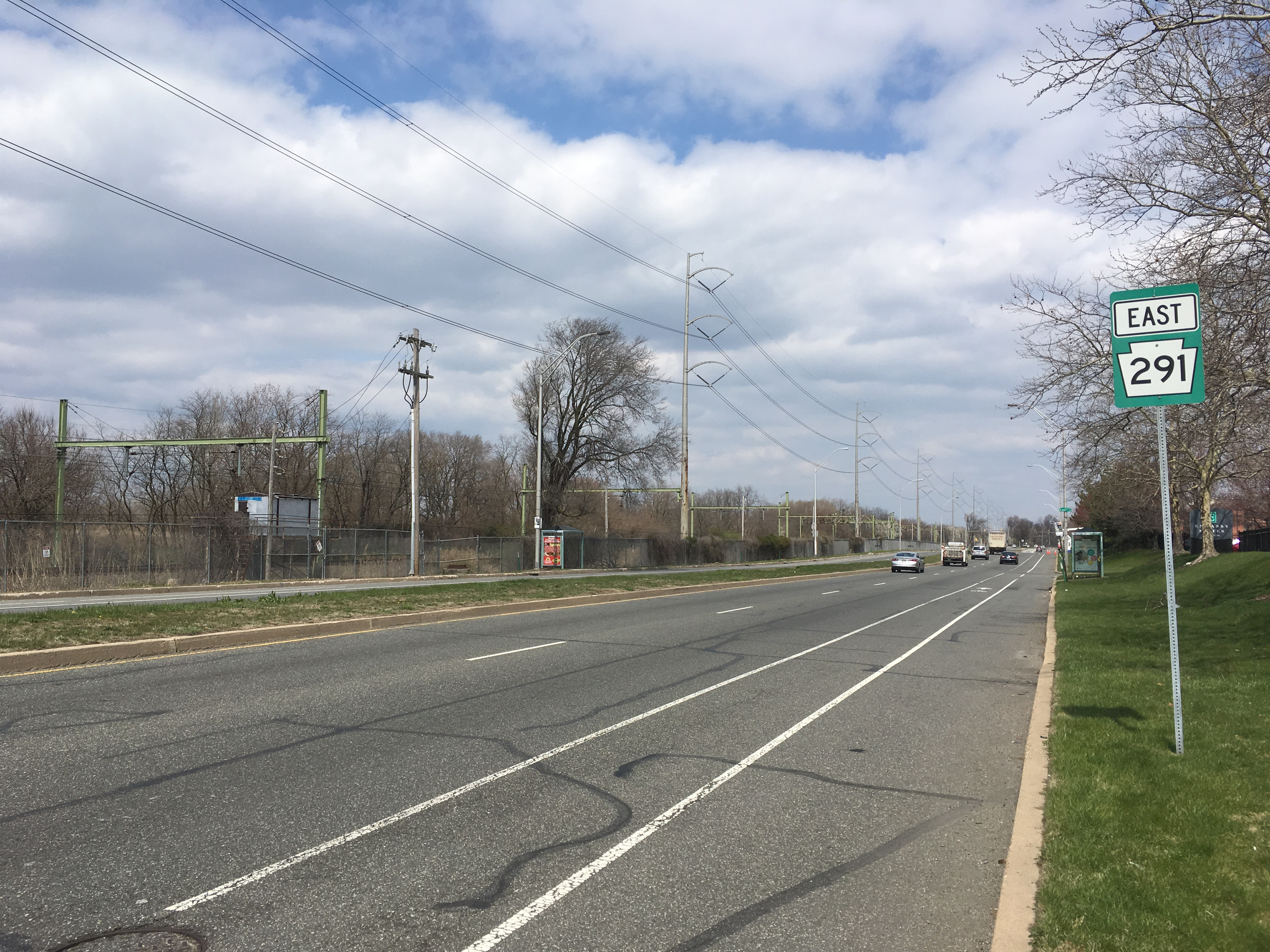 Eastbound Pennsylvania Route 291 (Bartram Avenue) past Interstate 95 exit 12B in Philadelphia, Pennsylvania